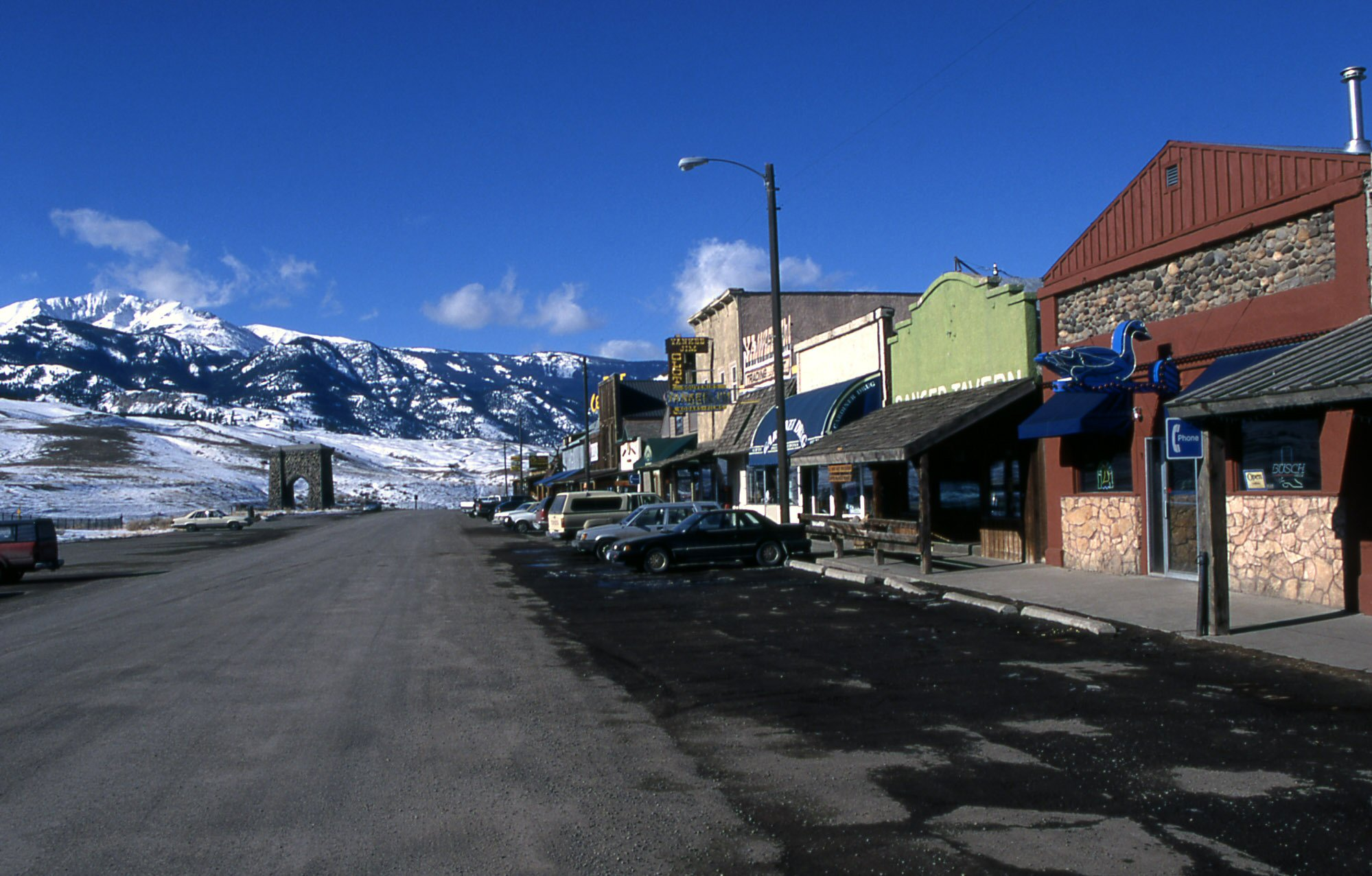 Downtown Gardiner, Montana with Electric Peak & the Roosevelt Arch in the background, February 1999